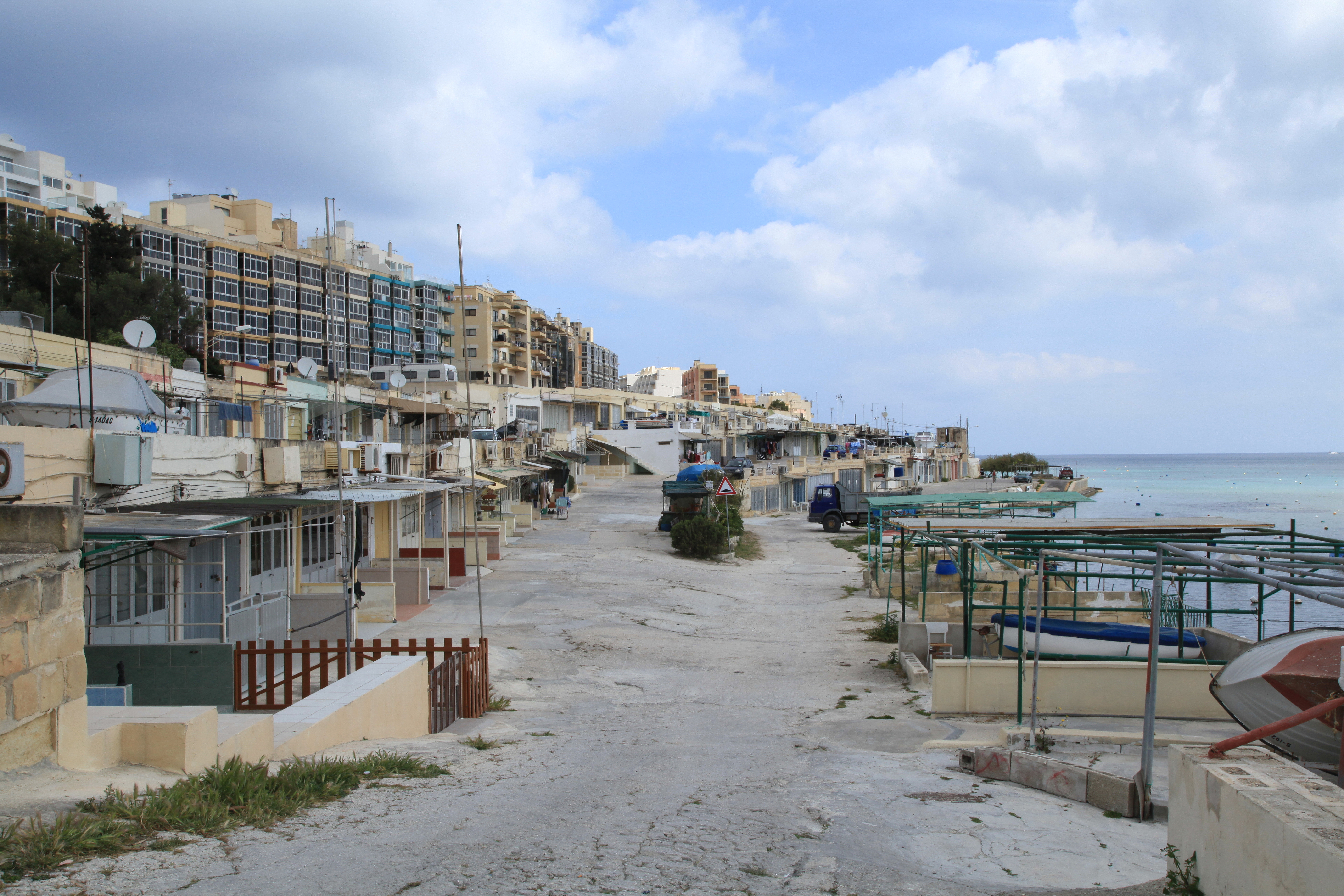 Boathouses (sometimes used to live in) at Triq tax-Xtut in St. Paul's Bay, Malta